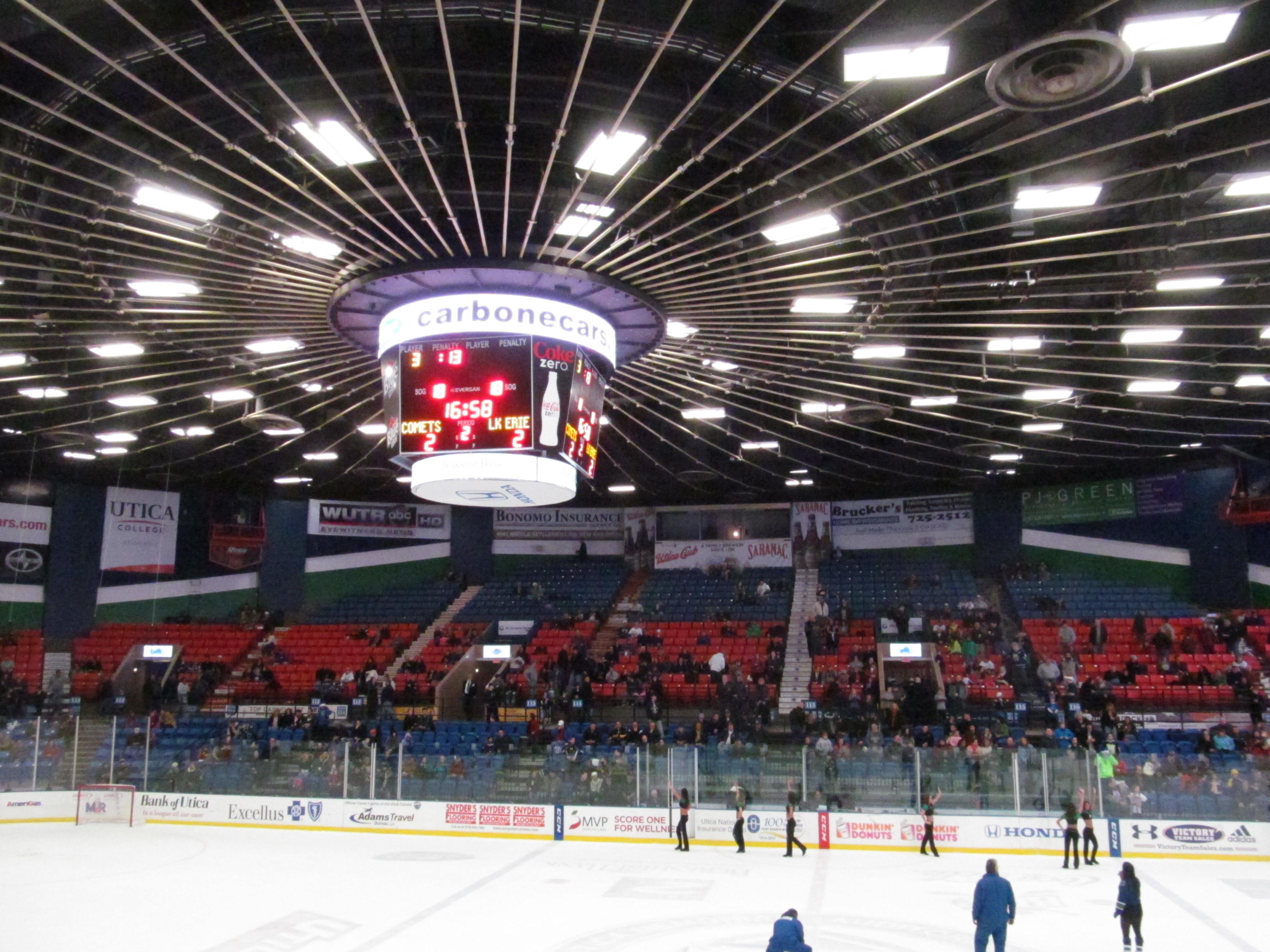 Lake Erie Monsters vs. Utica Comets - Utica Memorial Auditorium (Utica Aud) - Utica, New York - December 15, 2013